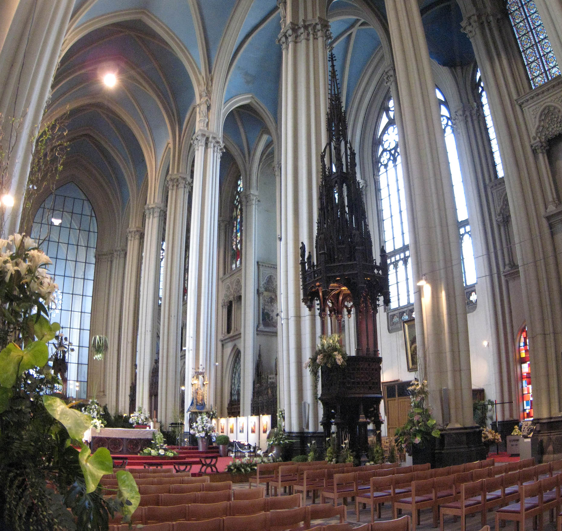 Composite of two images, of the interieur of the church of Notre-Dame de Laeken